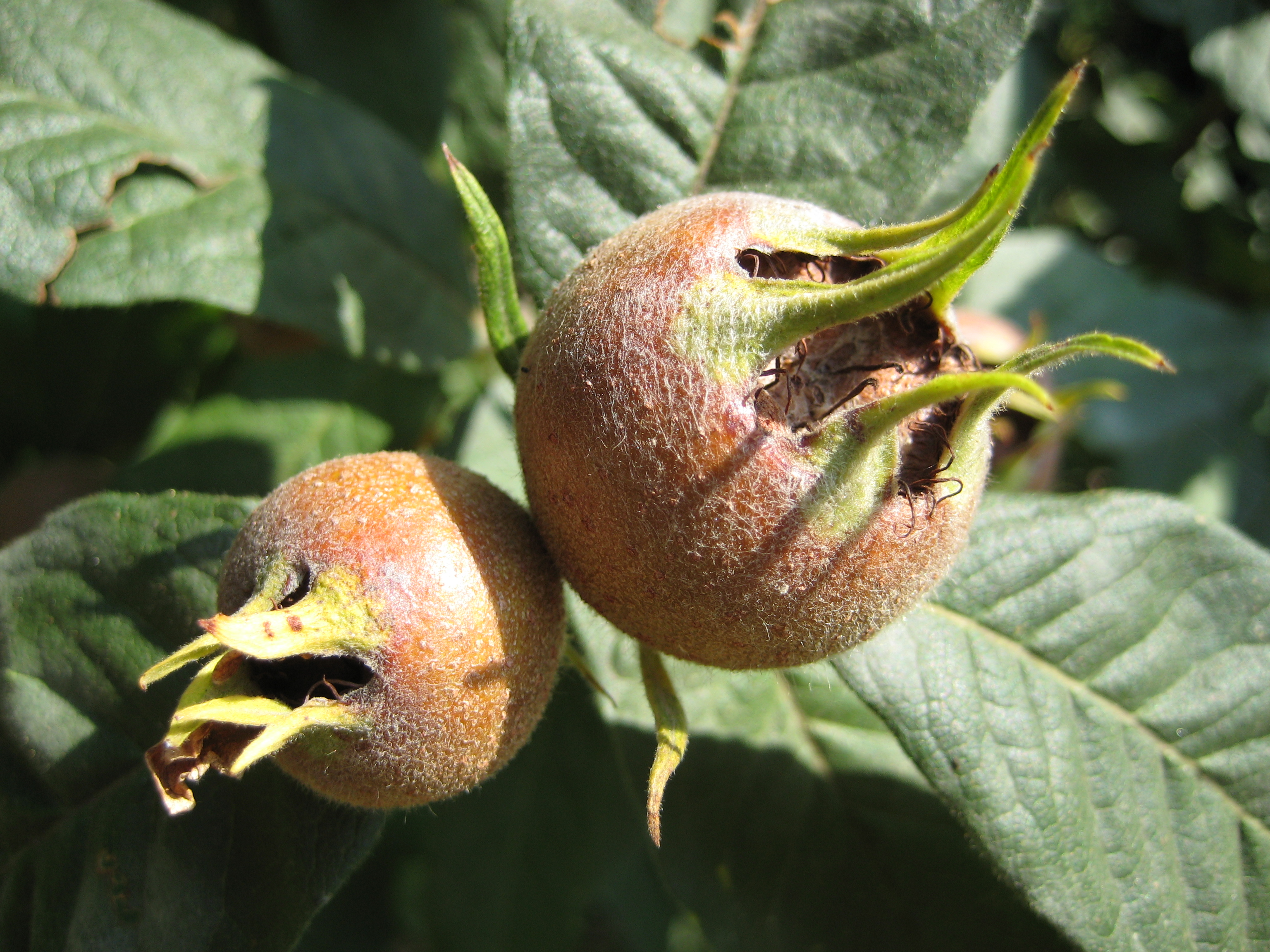 Medlar